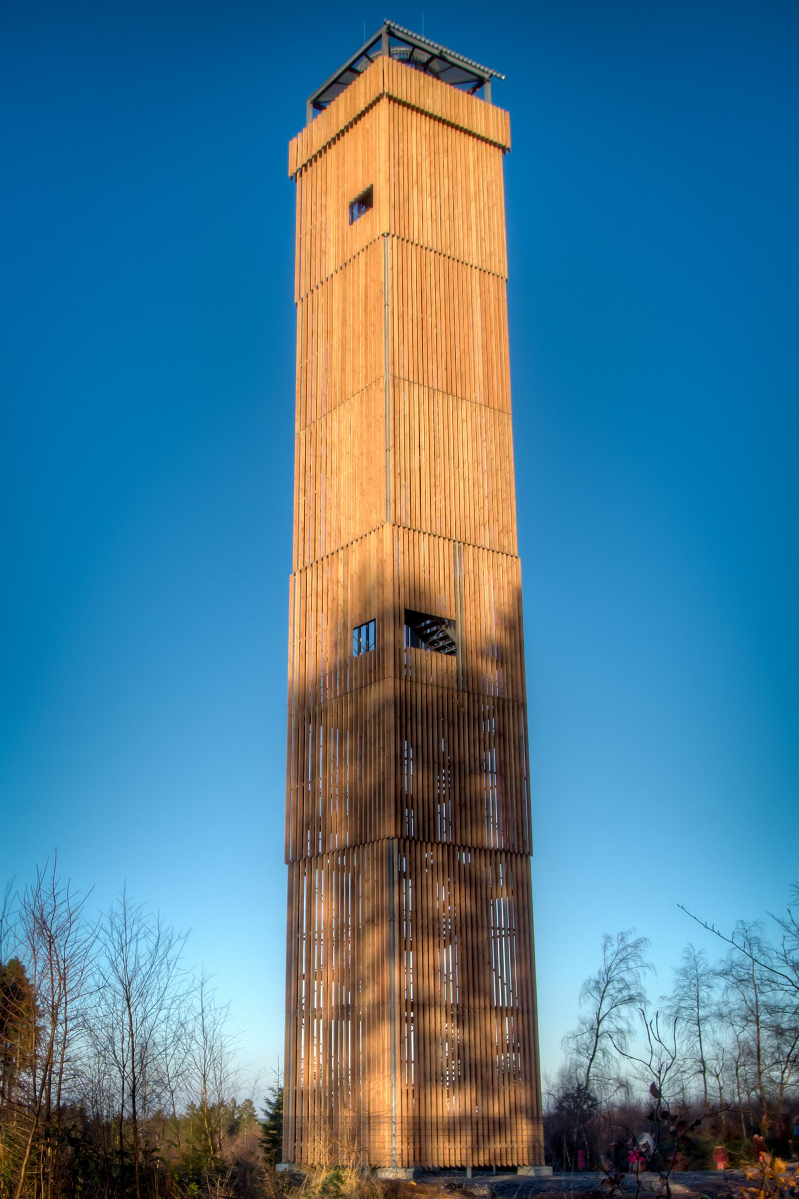 Moehnesee Landscape-View-Tower, Germany – photographed by Arnsberg-NRW/Germany